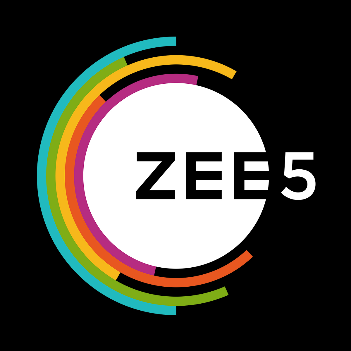 ZEE5 logo.